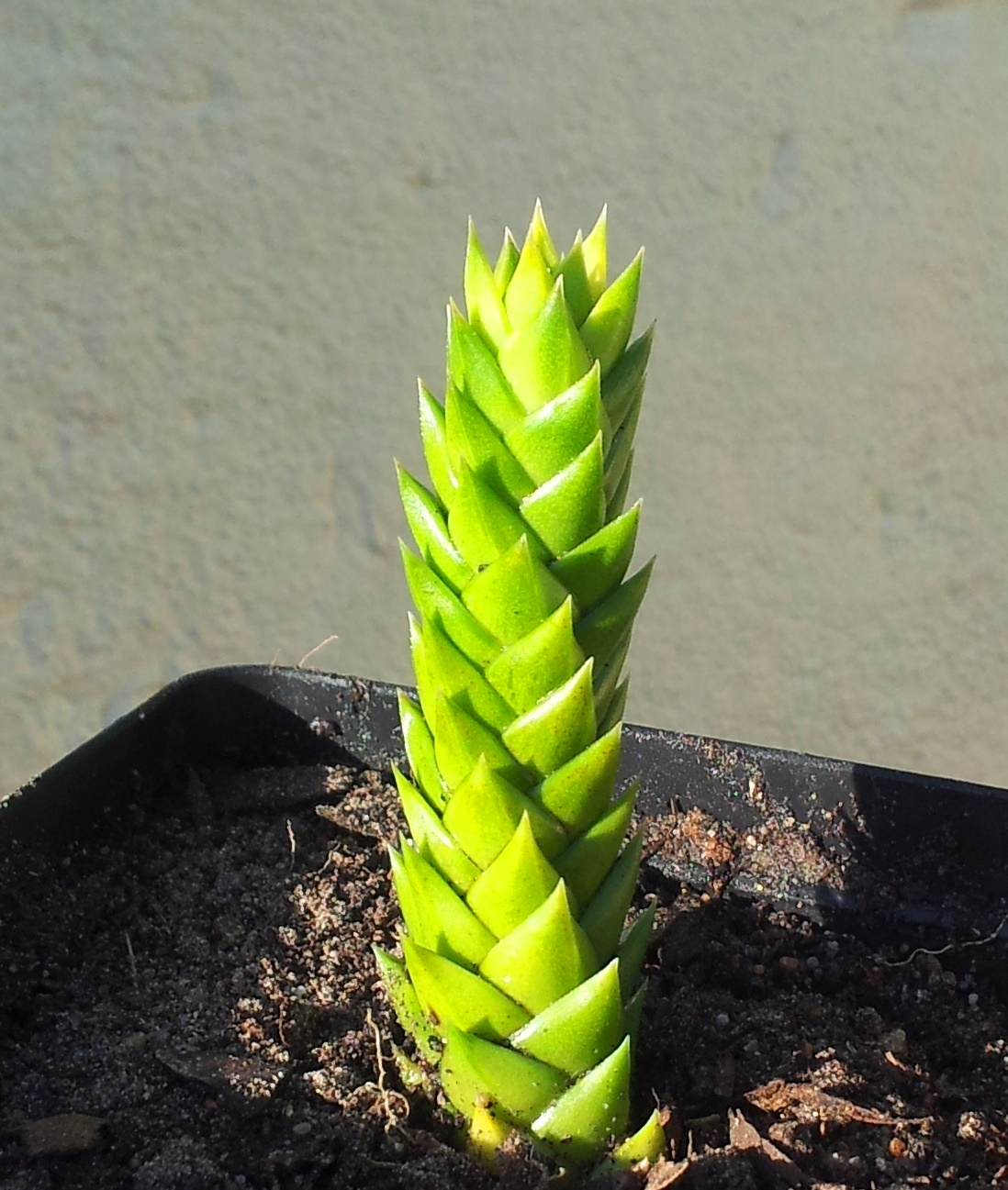 Astroloba spiralis - locality south of Calitzdorp. In cultivation in Cape Town